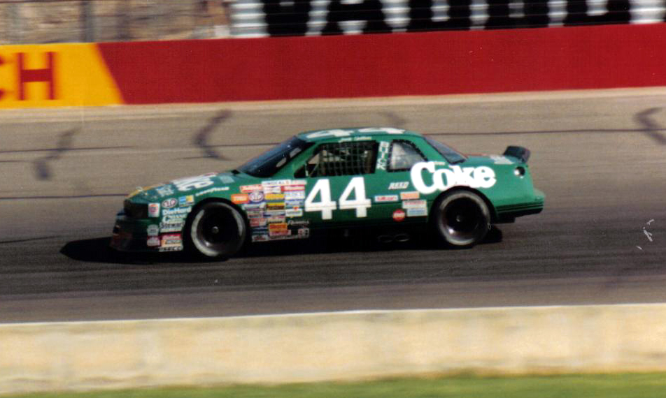 Jack Sellers' car at Phoenix in 1989